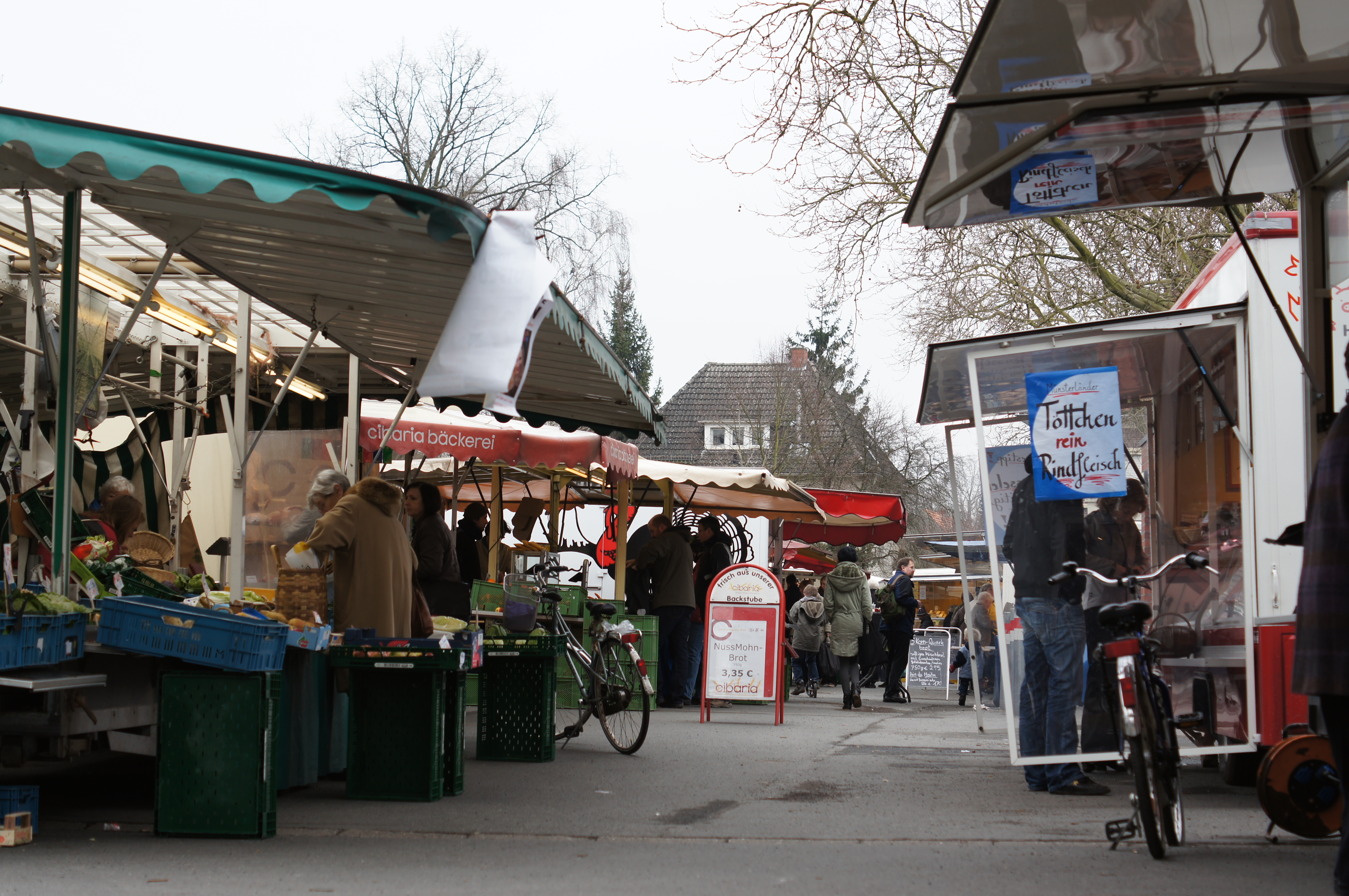 Street Market in the Geistviertel in Münster (Westphalia).